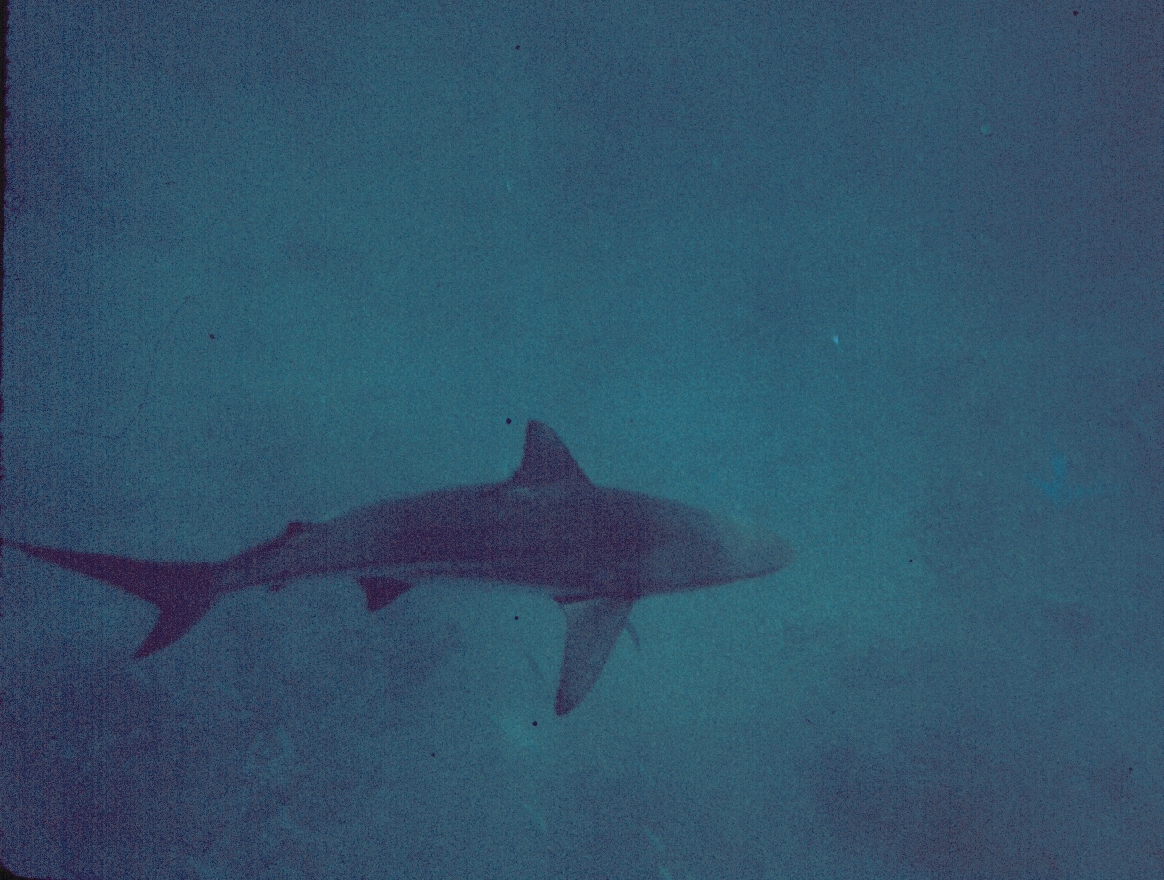 Blacktip shark (Carcharhinus limbatus) in Pokai Bay, Oahu